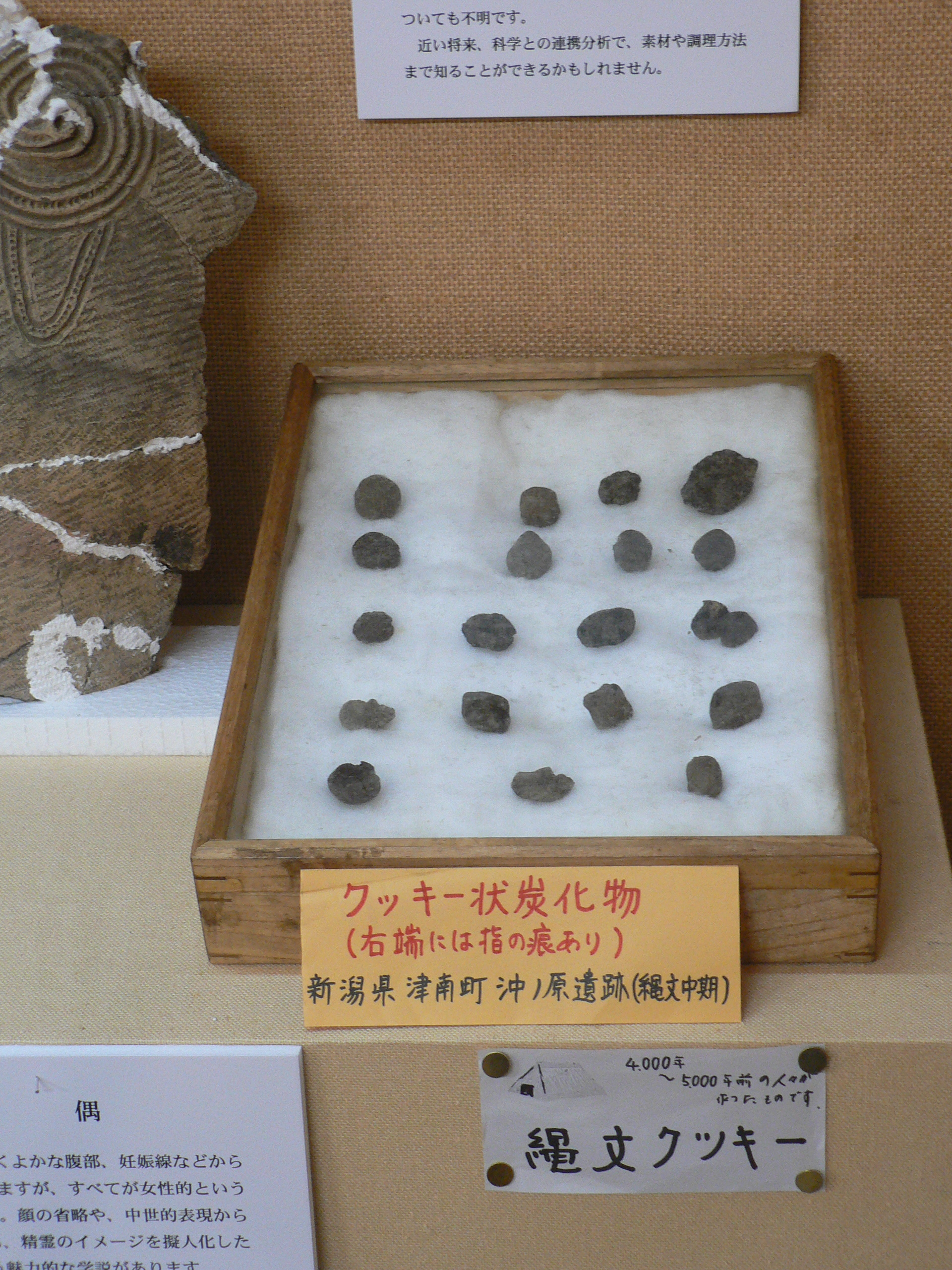 Carbide materials like a cookie, found from Okinohara-iseki in Niigata prefecture, Japan